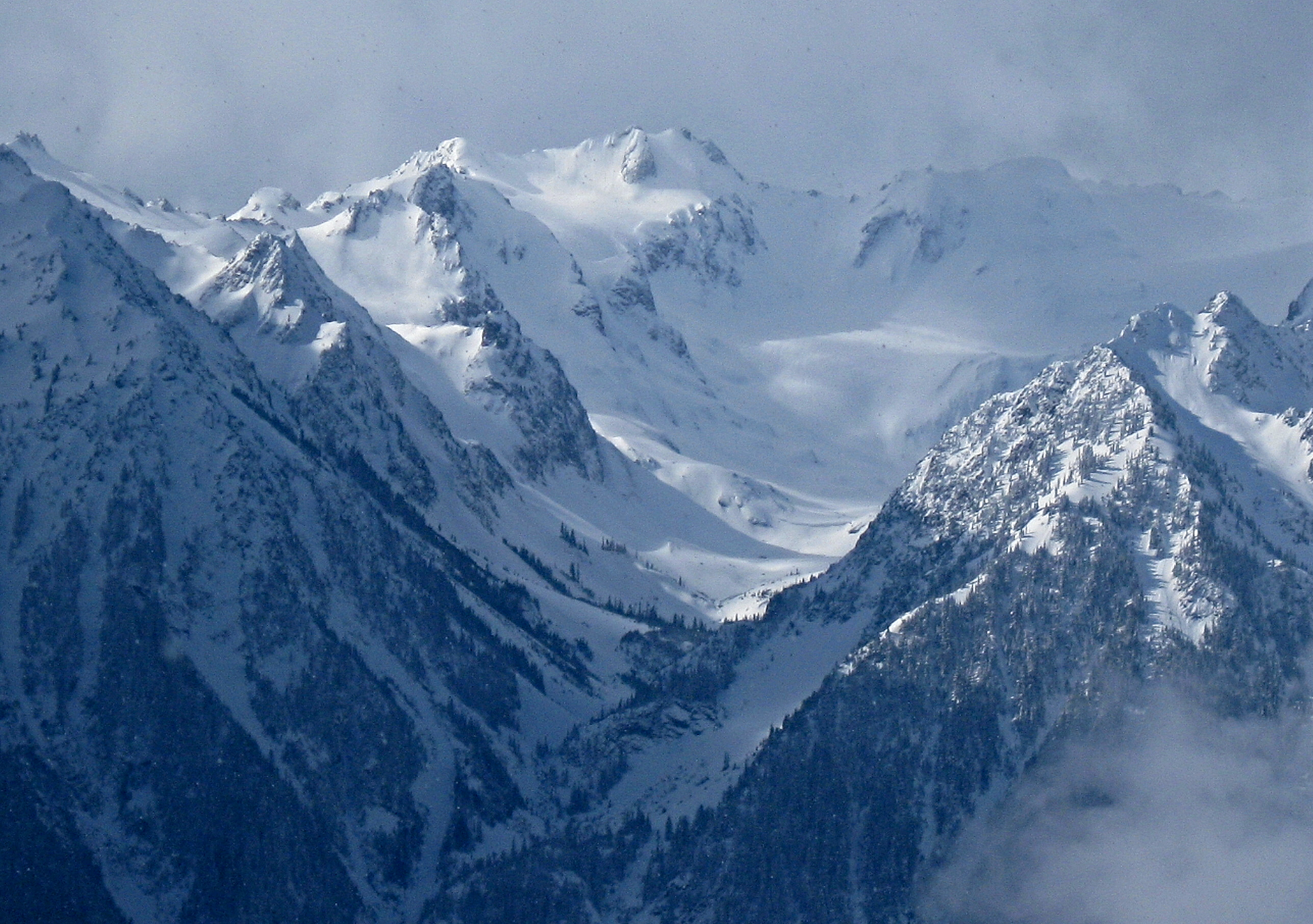 Ruth Peak, a subsidiary peakof Mount Carrie, in winter